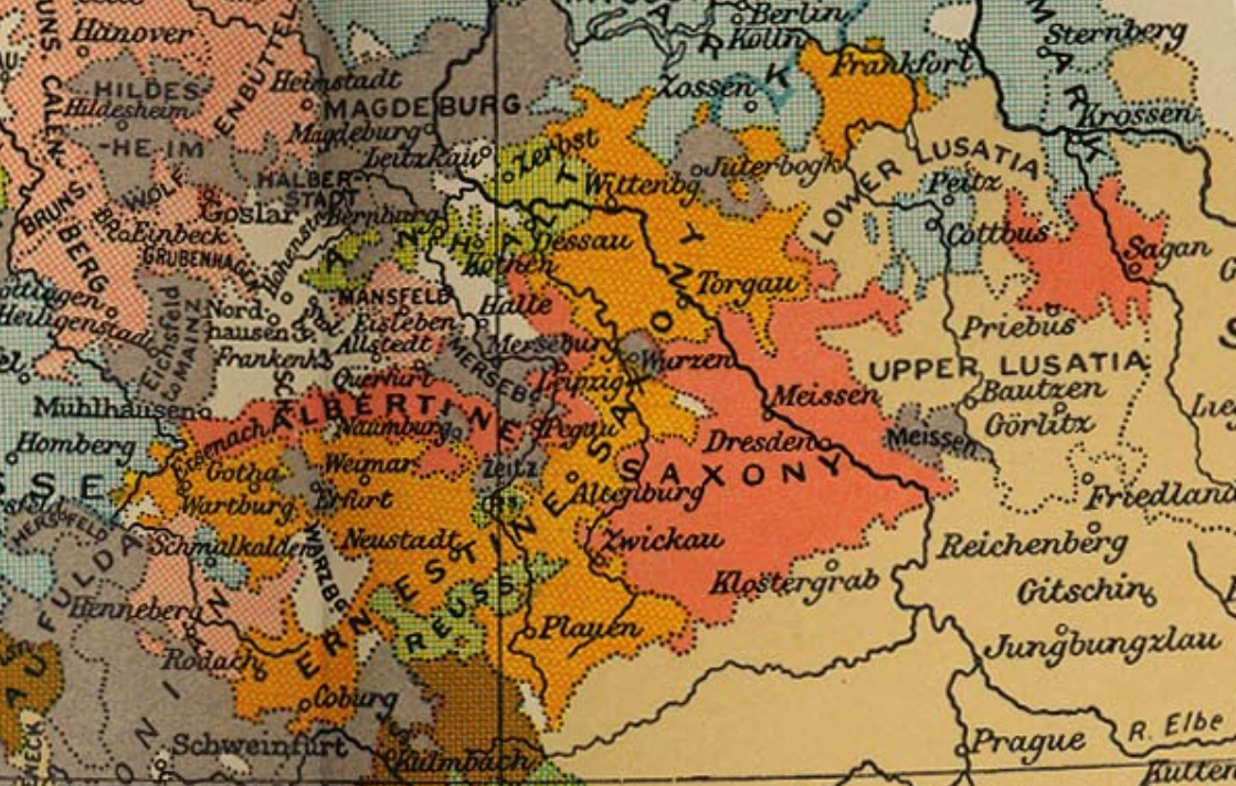 Political map of the region tied to Martin Luther in 1519.